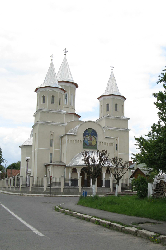 Orthodox Church dedicated to the "Holy Trinity" in the city of Ştei